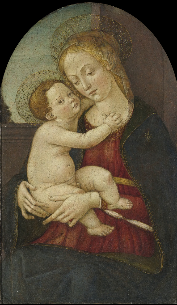 Madonna and Child before a Window. tempera on panel, in an engaged frame, painted surface: 73.7 by 44.1 cm